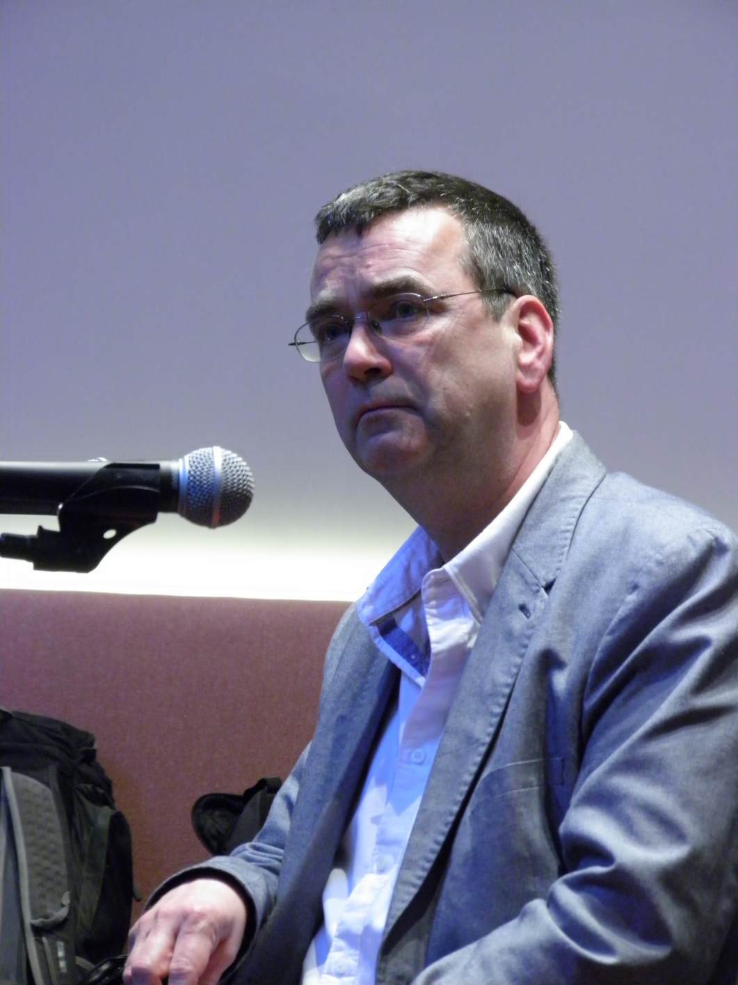 Author Mick Herron at St Cecilia's Hall, Edinburgh, 2018-04-20